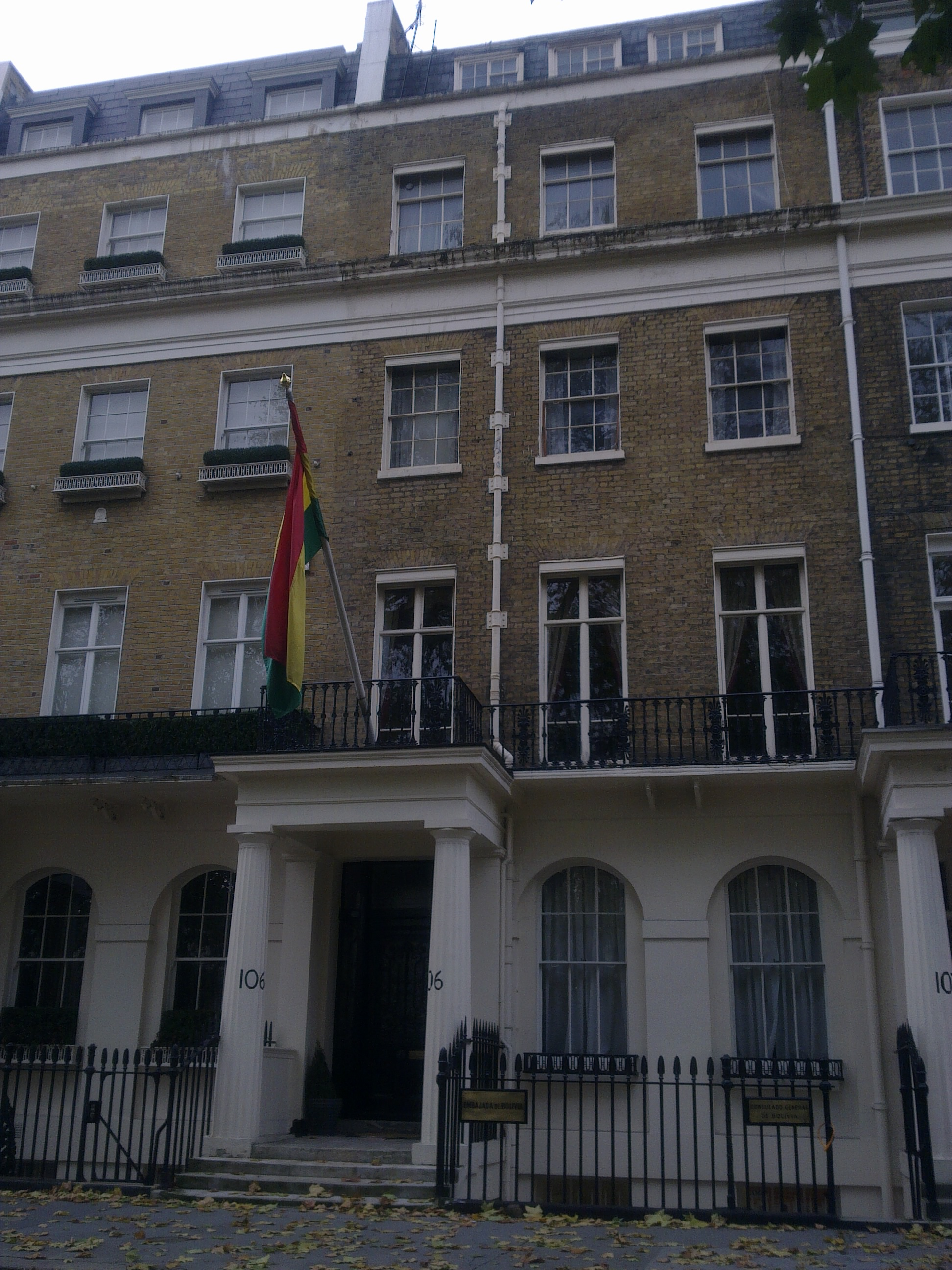 Embassy of Bolivia in London 1